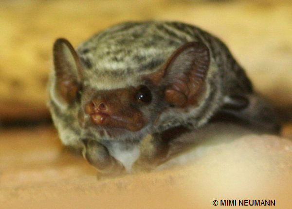 Mauritian Tomb Bat sighted on 3rd March 2007 at Johannesburg, South Africa